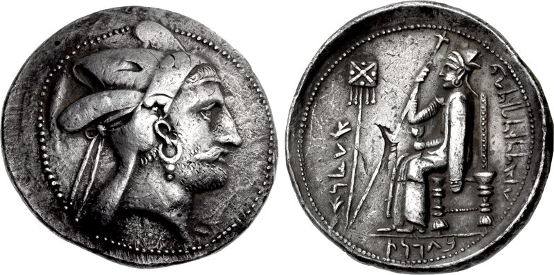 KINGS of PERSIS. Baydād (Bagadat) Early 3rd century BC